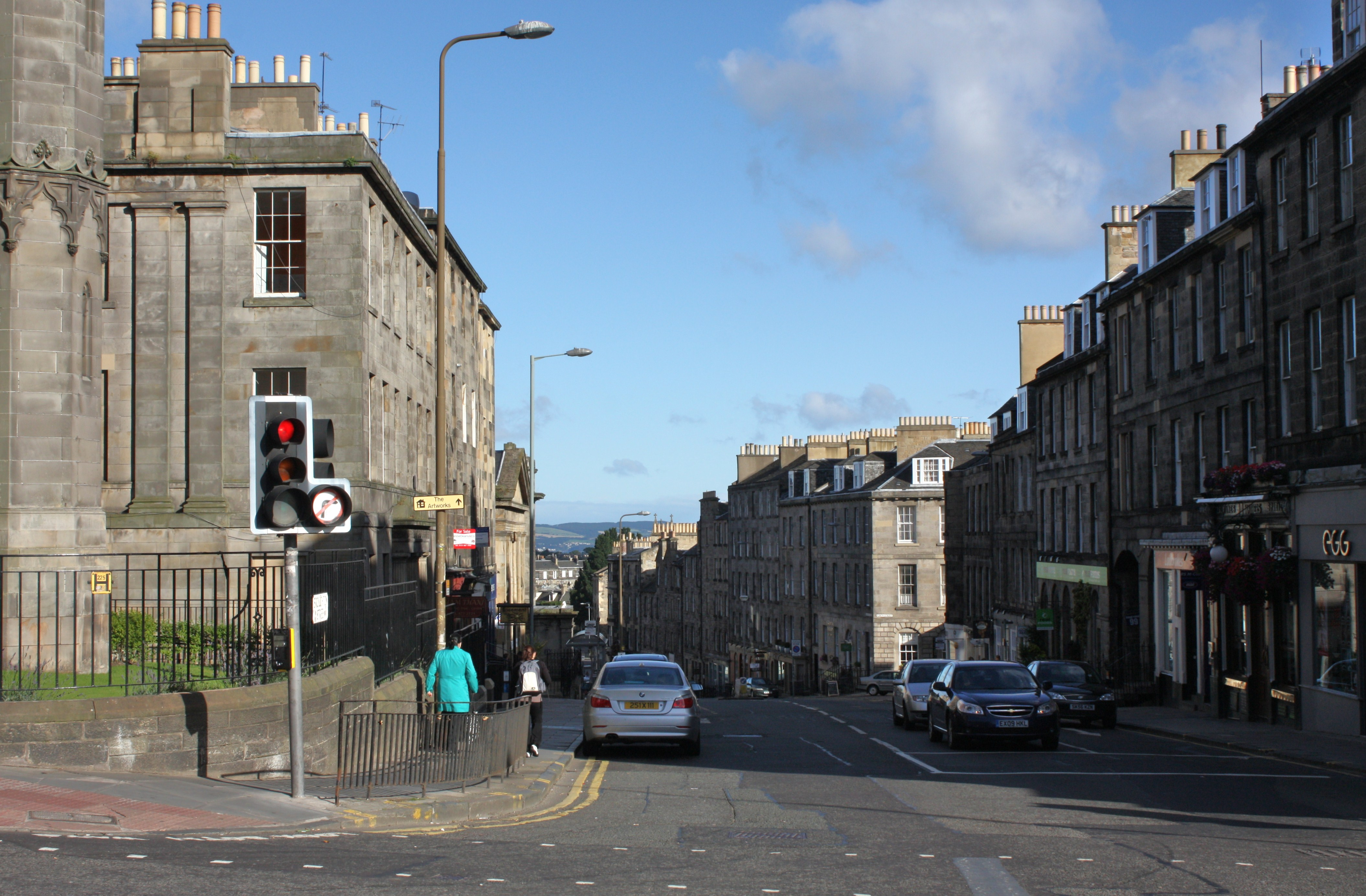 Broughton Street, Edinburgh, Scotland.